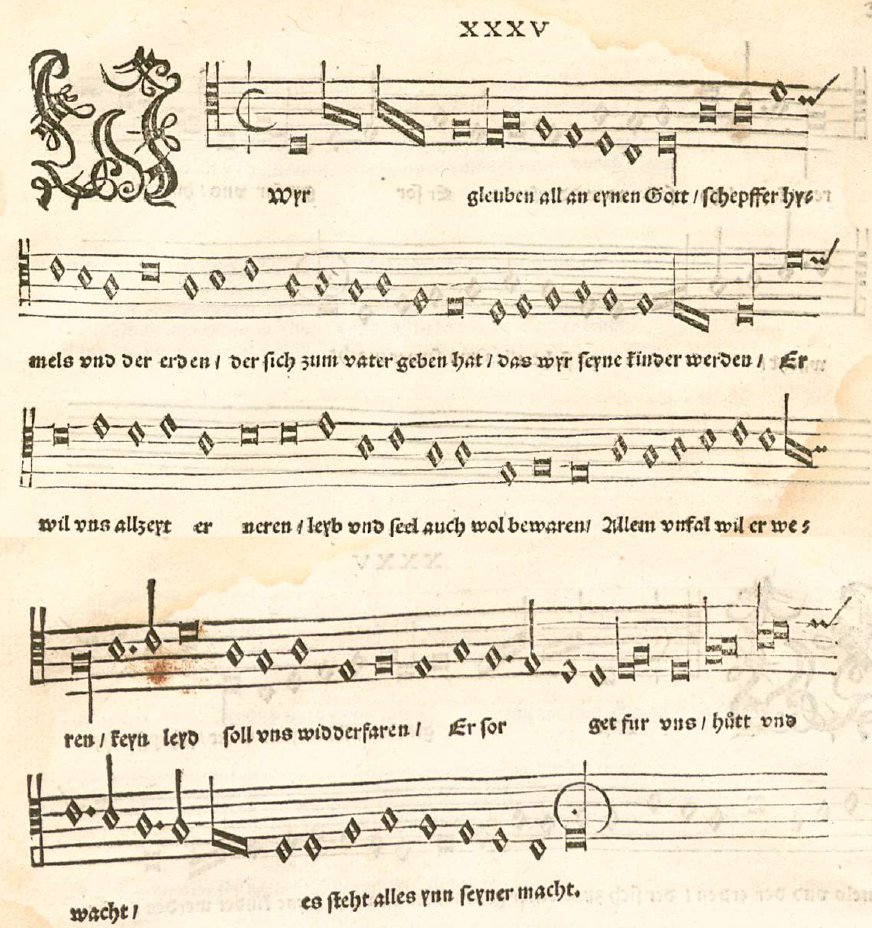 "Wir glauben all' an einen Gott" from the 1524 hymnbook of Martin Luther and Johann Walter